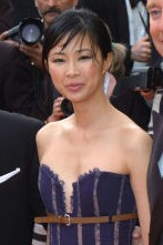 french viatnamese actress Linh Dan Pham at the Cannes Film Festival 2006